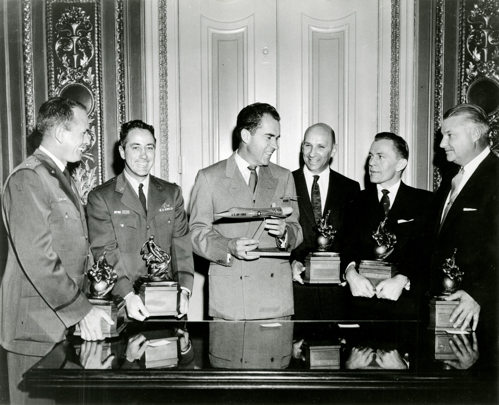 View of then Vice-President Richard M. Nixon (center, holding a model of an Lockheed F-104 Starfighter) with recipients of the 1958 Collier (Robert J.) Trophy. From left to right are Walter W. Irwin, Howard C. Johnson, Nixon, Gerhard Neumann, Neil Burgess, and Clarence Leonard "Kelly" Johnson.